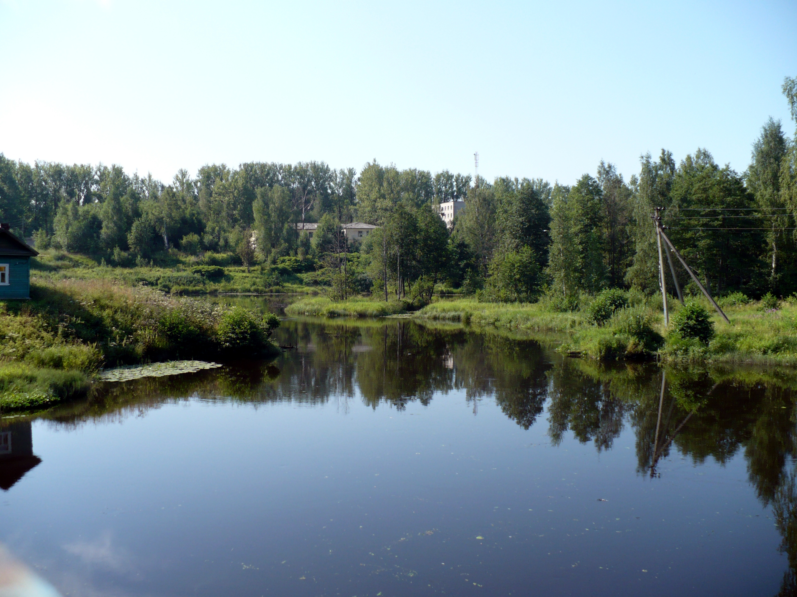 Peretna River in Okulovka, Novgorodskaya Oblast, Russia